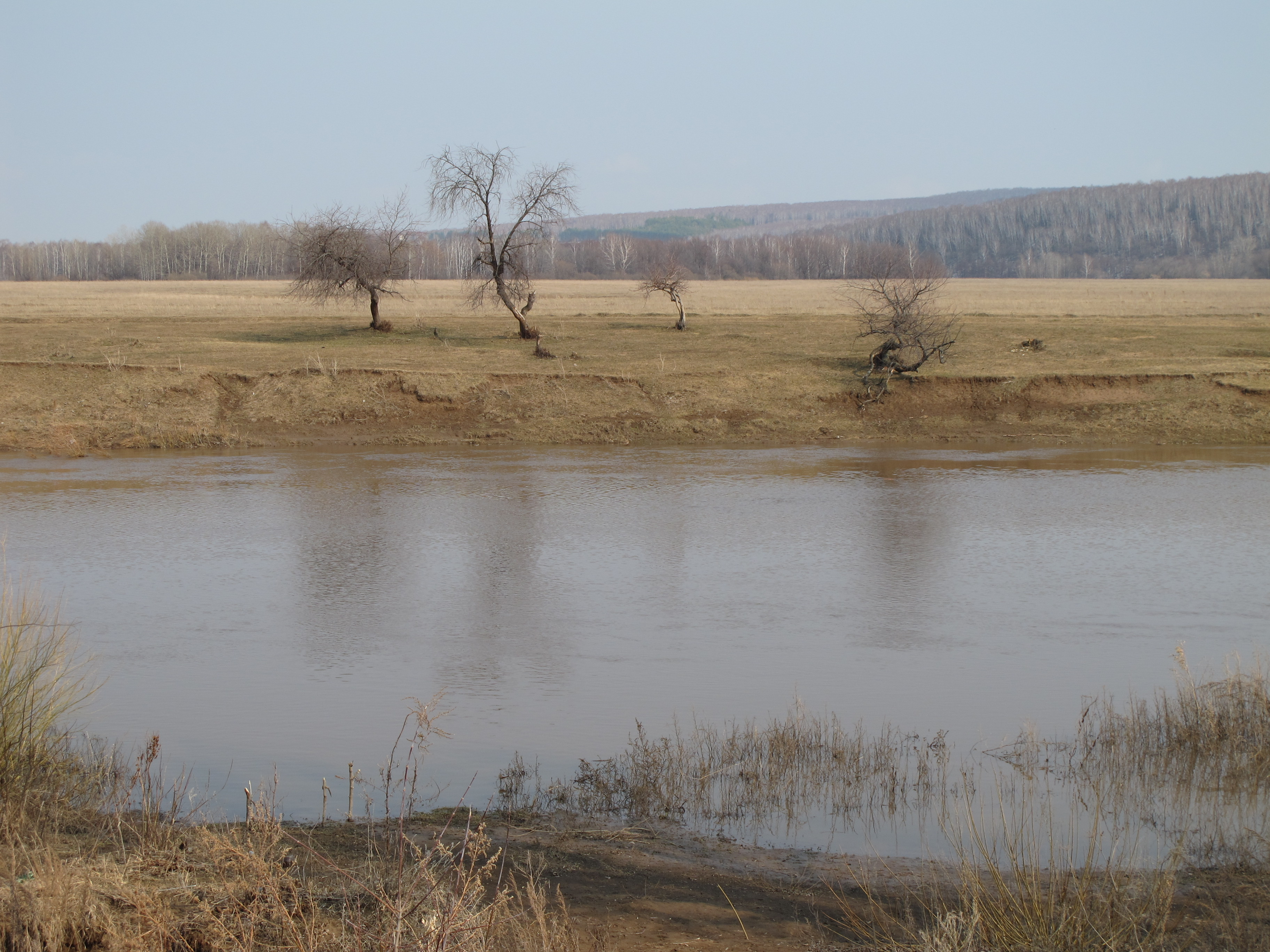 Dyoma River near Bochkarevka. Straight ahead, behind trees - Akmanay.